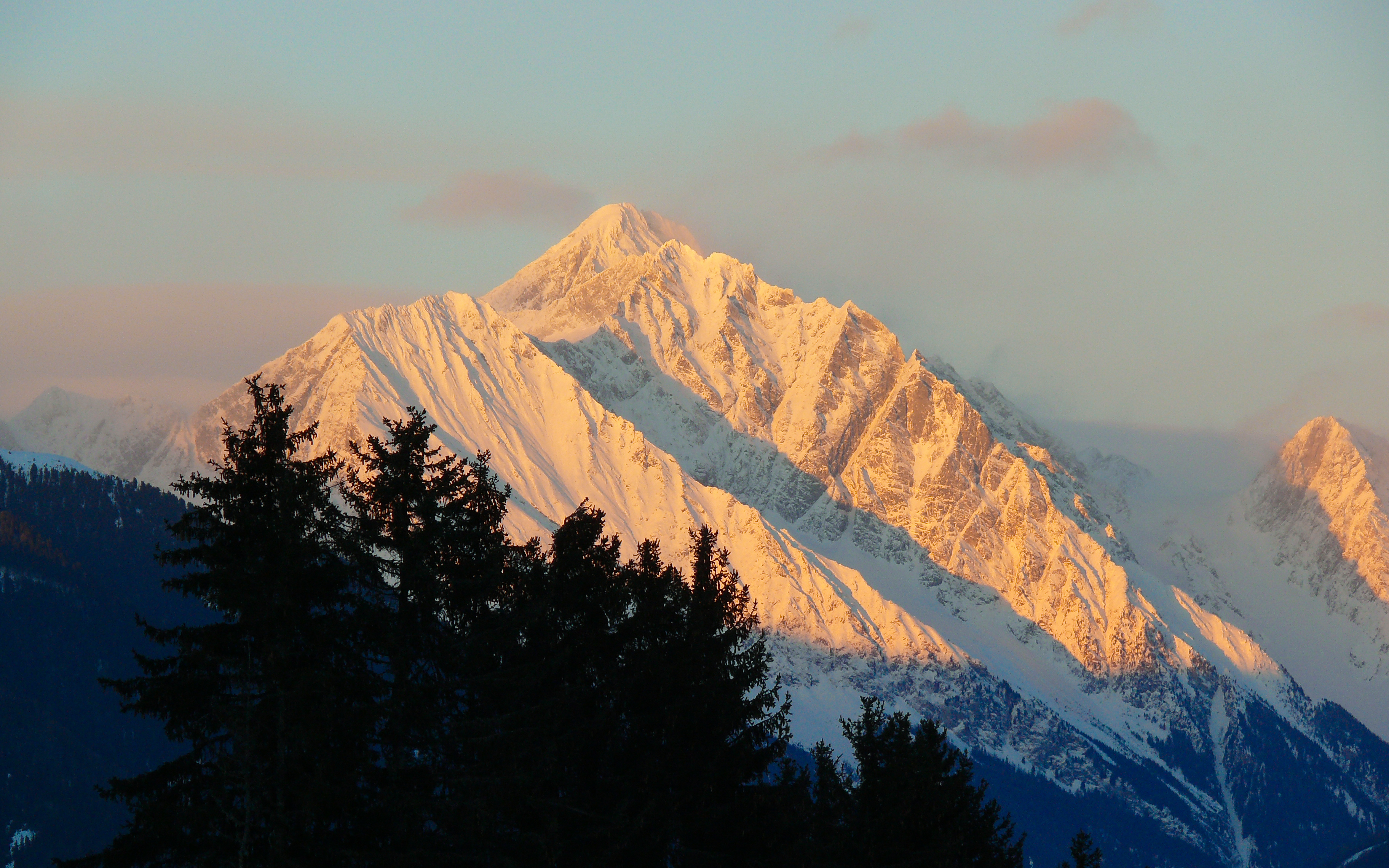 Hochgall (Coll'Alto), 3.436m and Wildgall (Collaspro), 3.273m from southwest on a winter afternoon.